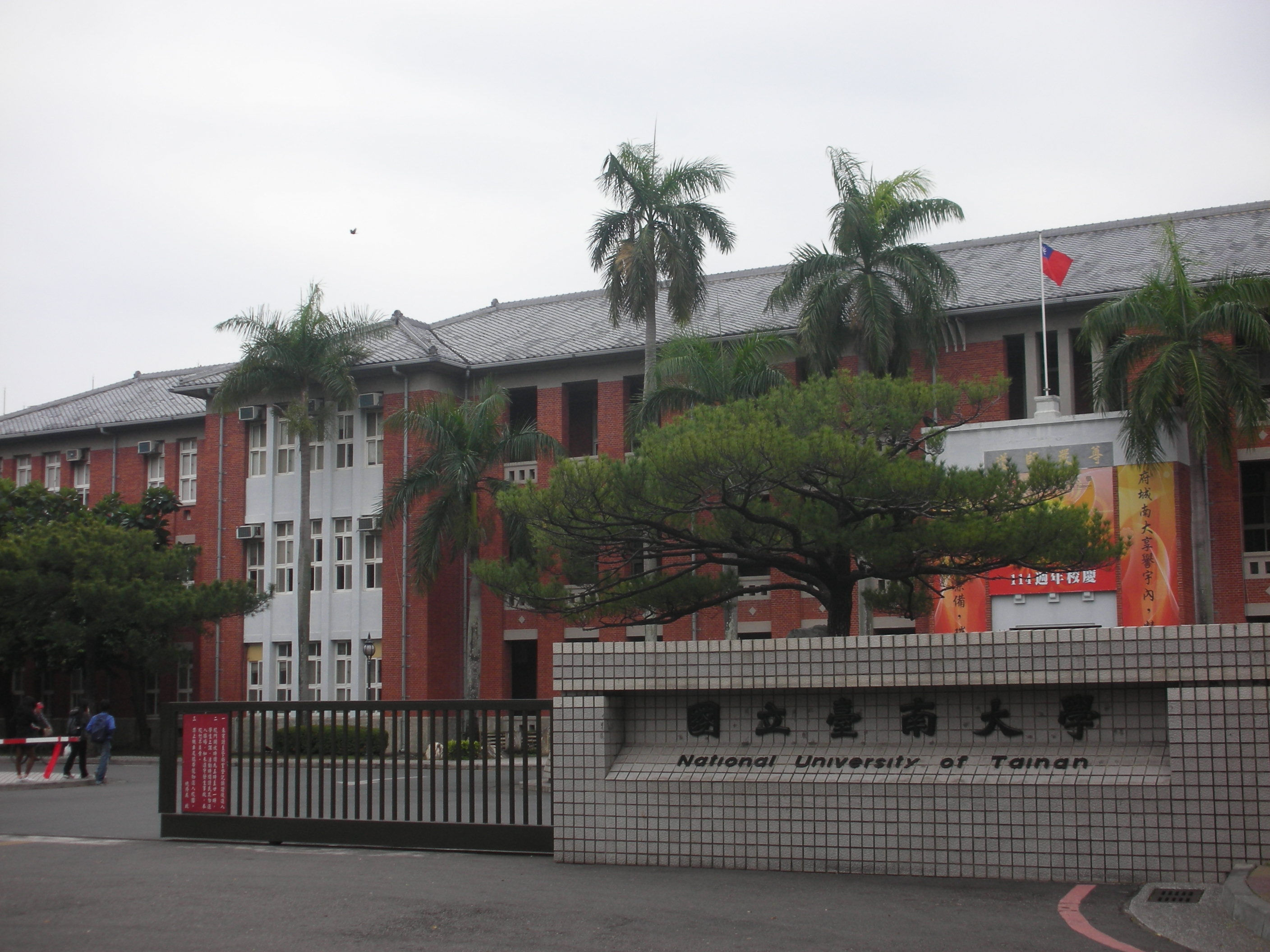 台南大學 Tainan University